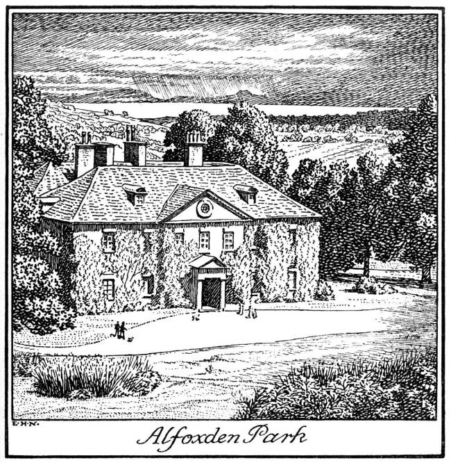 Drawing of Alfoxton or Alfoxden House, Holford, Somerset, UK. Once the home of William wordsworth